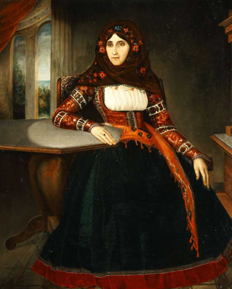 Portrait of a Lady from Hydra (version without shadow/frame)